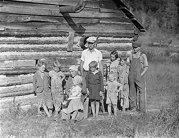 "Part of the family of Hugh Noe, a renter on a farm near Andersonville, Tennessee."